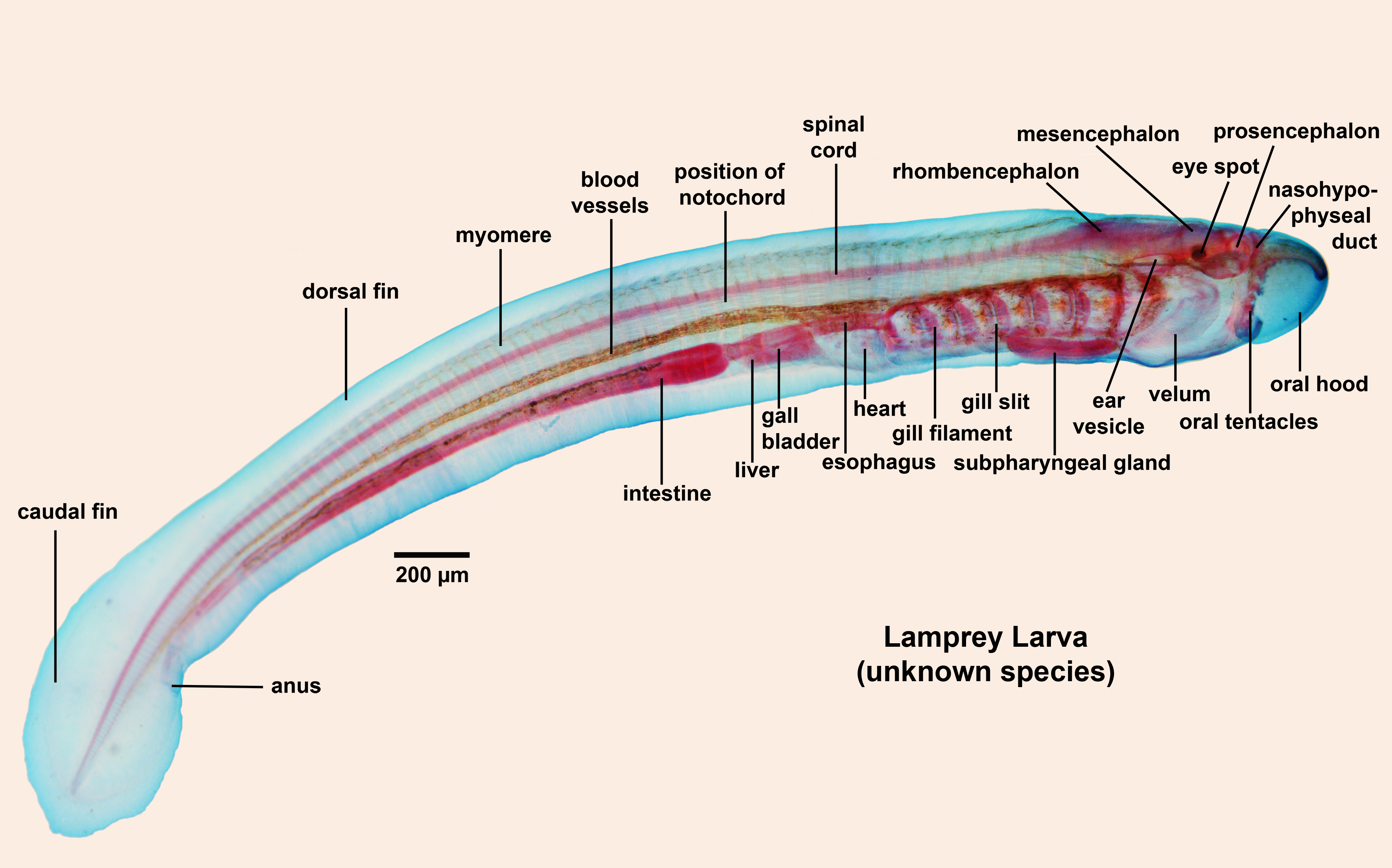 Microscopic whole mount, cleared & stained larval specimen from an unknown lamprey species.